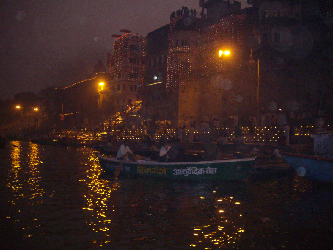 Tourist and pilgrim boats on Ganges river on the occasion of Dev Deepavali festival on Karthik Purnima.